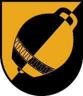 Source: "Fahnen-Gärtner GmbH, Mittersill" This file depicts a coat of arms. The composition of coats of arms are generally public domain with respect to copyright laws, and may be reproduced freely. This corresponds to the international traditional usage, and is explicitly stated in some national copyright laws. Some compositions, of more recent origin, may be copyrighted. This is not a valid license as such, being a "public domain" statement for the coat of arms definition only. It must be completed with the copyright tag associated to the picture creation. See Commons:Coats of arms for further information. Please note that this applies only to the coat of arms definition (composition / description). The representation of a coat of arms is an artistic creation, subject as such to copyright laws. Restriction of use - Legal notice: Most of the time, the usage of coats of arms is governed by legal restrictions, independent of the status of the depiction shown here. A coat of arms represents its owner. Though it can be freely represented, it cannot be appropriated, or used in such a way as to create a confusion with or a prejudice to its owner. Usage on Commons: Please provide licence information for the coat of arm representation, information for the author of the picture, and the source if not self-made work. This image is in the public domain according to Austrian copyright law because it is part of a law, ordinance or official decree issued by an Austrian federal or state authority, or because it is of predominantly official use. (§7 UrhG) To uploader: Please provide where the image was first published and who created it.